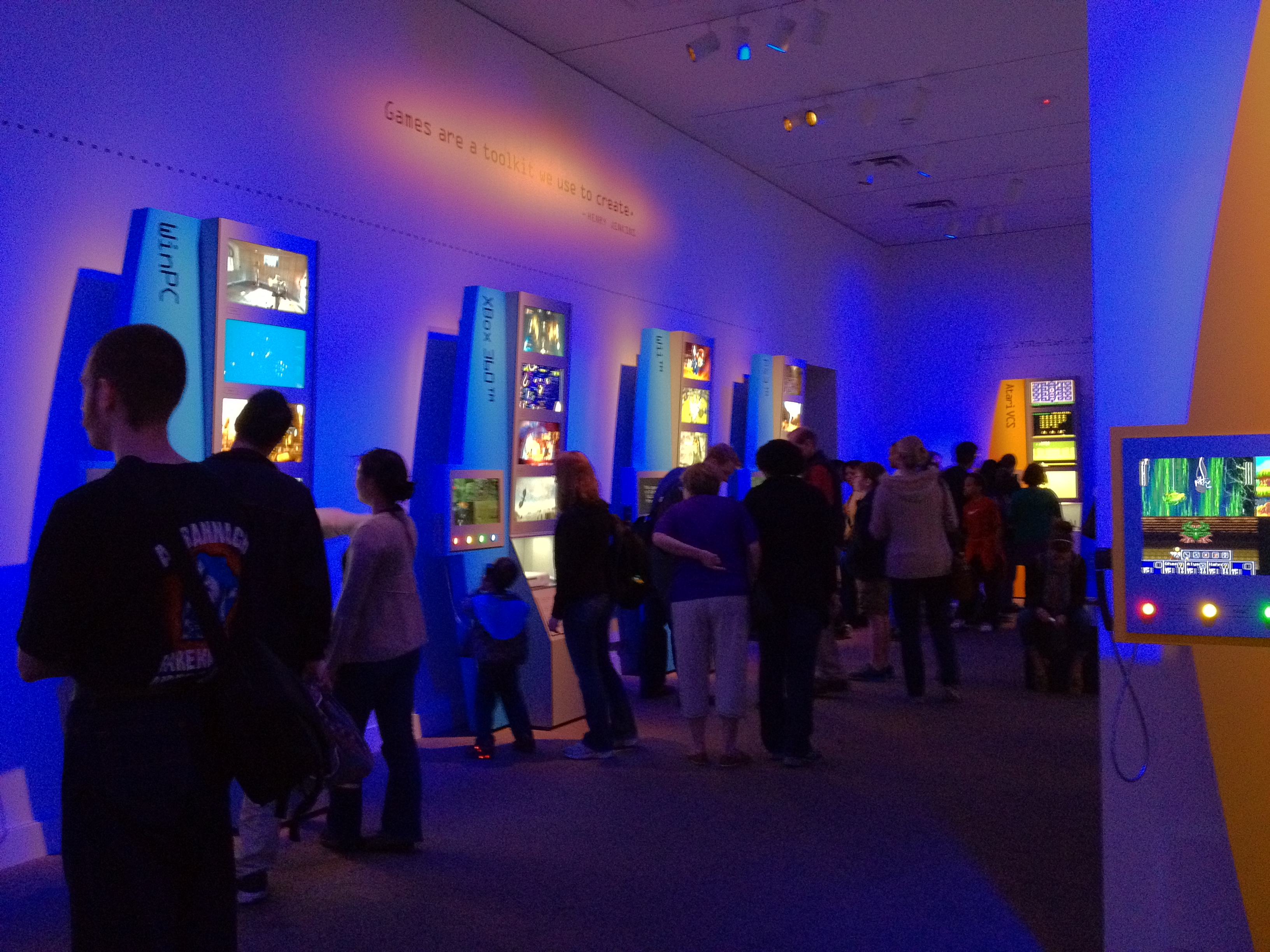 Exhibit at the Smithsonian American Art Museum (March 16, 2012 - September 30, 2012) Photos from opening weekend